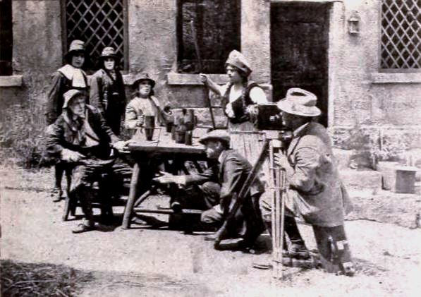 Still from the American fantasy film Rip Van Winkle (1921) with Pietro Sosso (far left), Thomas Jefferson, and Milla Davenport, on page 47 of the August 27, 1921 Exhibitors Herald. The caption states that "Director Lascelle" is talking to the cast, the IMDb lists Ward Lascelle (1882–1941) as the producer and Edward Ludwig (1899–1982) as the director. The man behind the camera would be cinematographer David Abel (1883–1973).